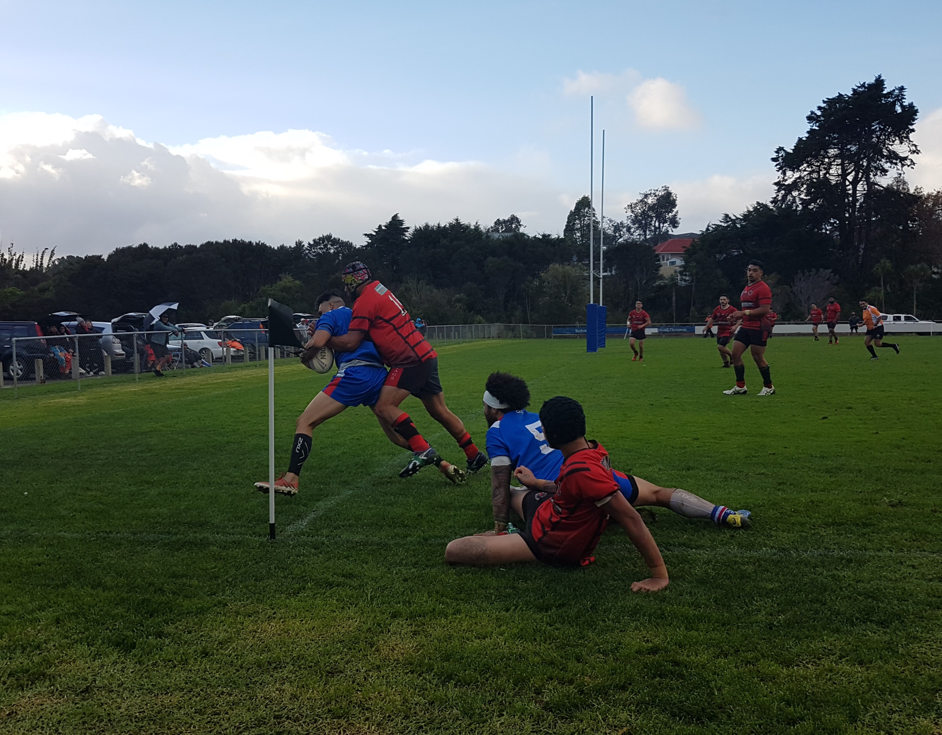 Te Atatu Roosters scoring v New Lynn at Jack Colvin Park in June 2019